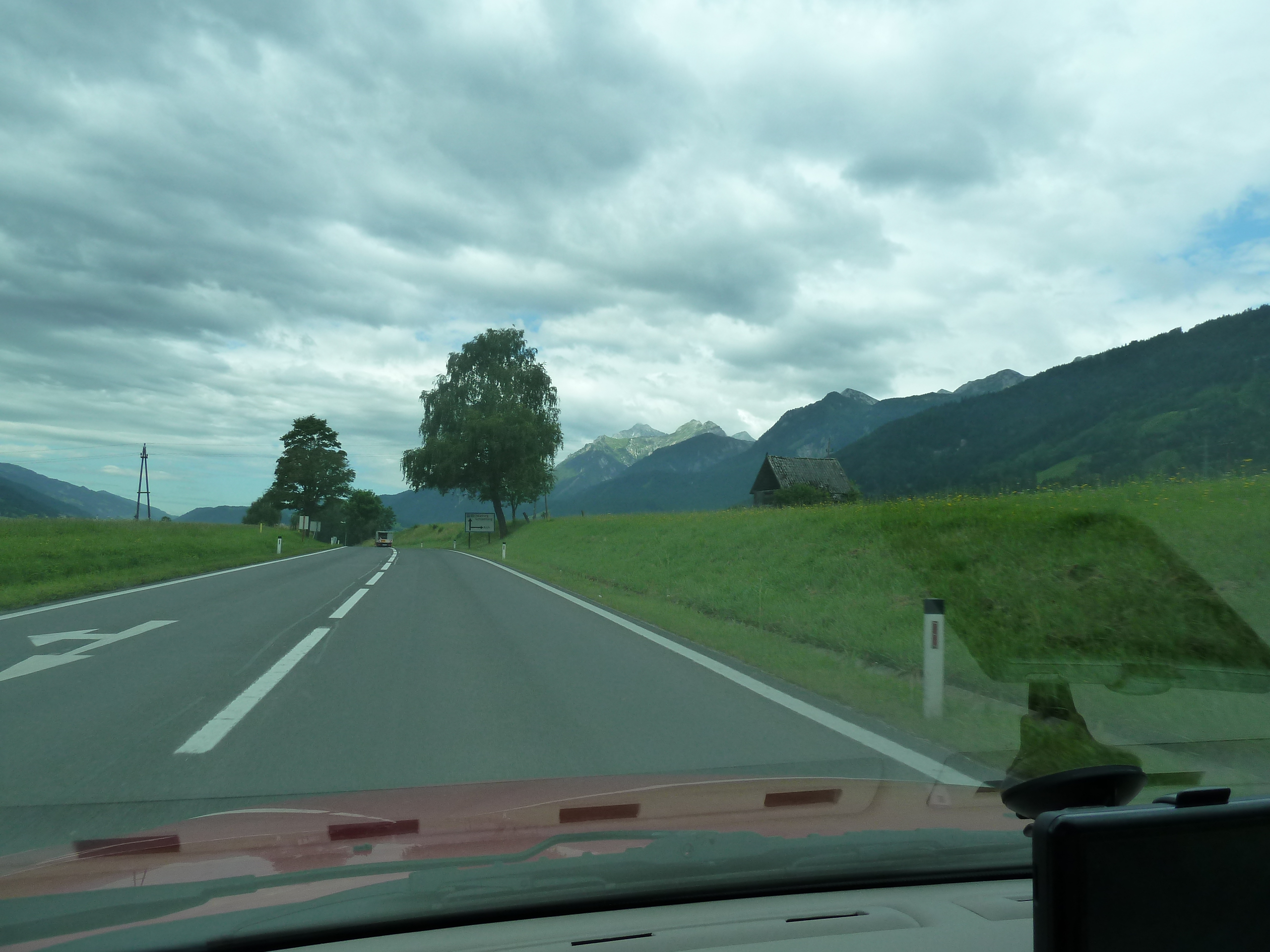 The Road E651/320 near Aich, Austria